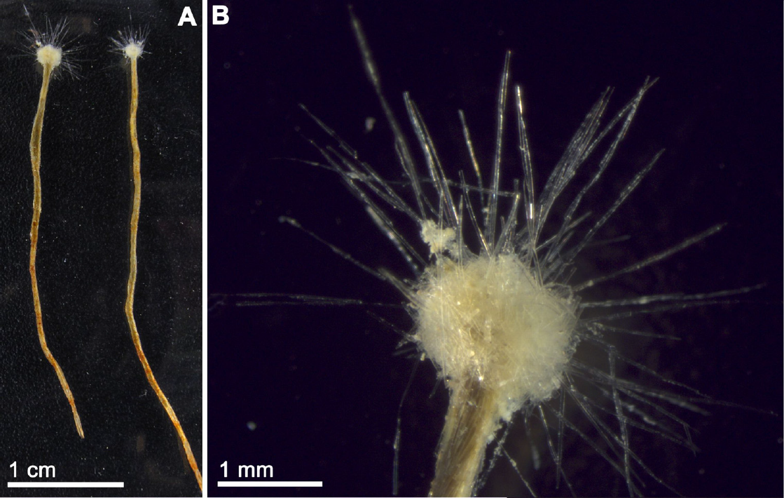 Spiculosiphon oceana, a species of giant foraminiferan from the Mediterranean Sea. (A) General view of the holotype and the paratype (from left to right, respectively) of Spiculosiphon oceana. (B) Detail of capitate region of the holotype, showing the globelike, central structure and the radiating tracts of spicules